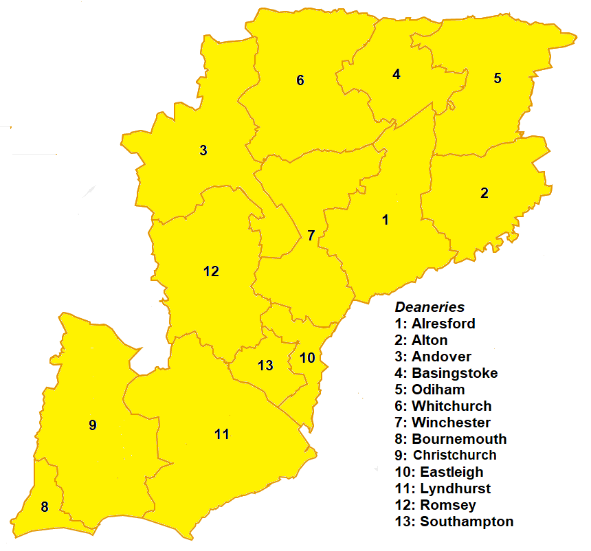 Mainland deaneries of the Diocese of Winchester